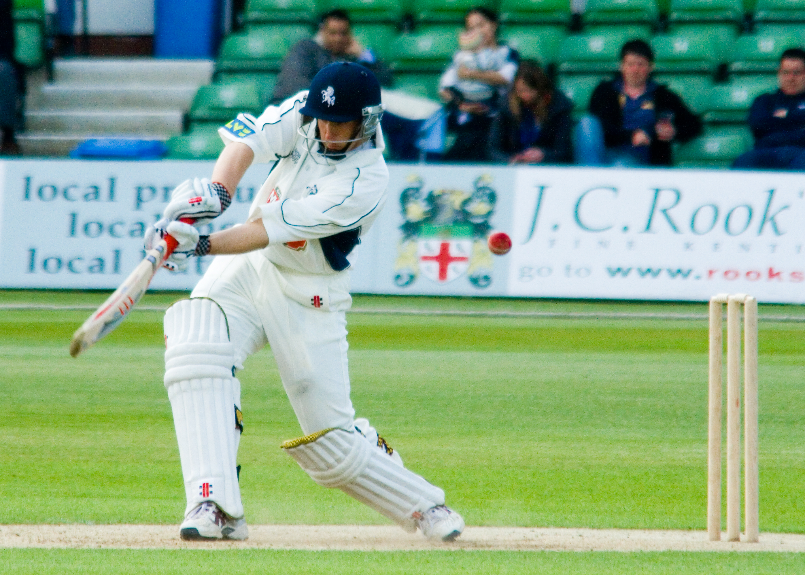 Tredwell drives